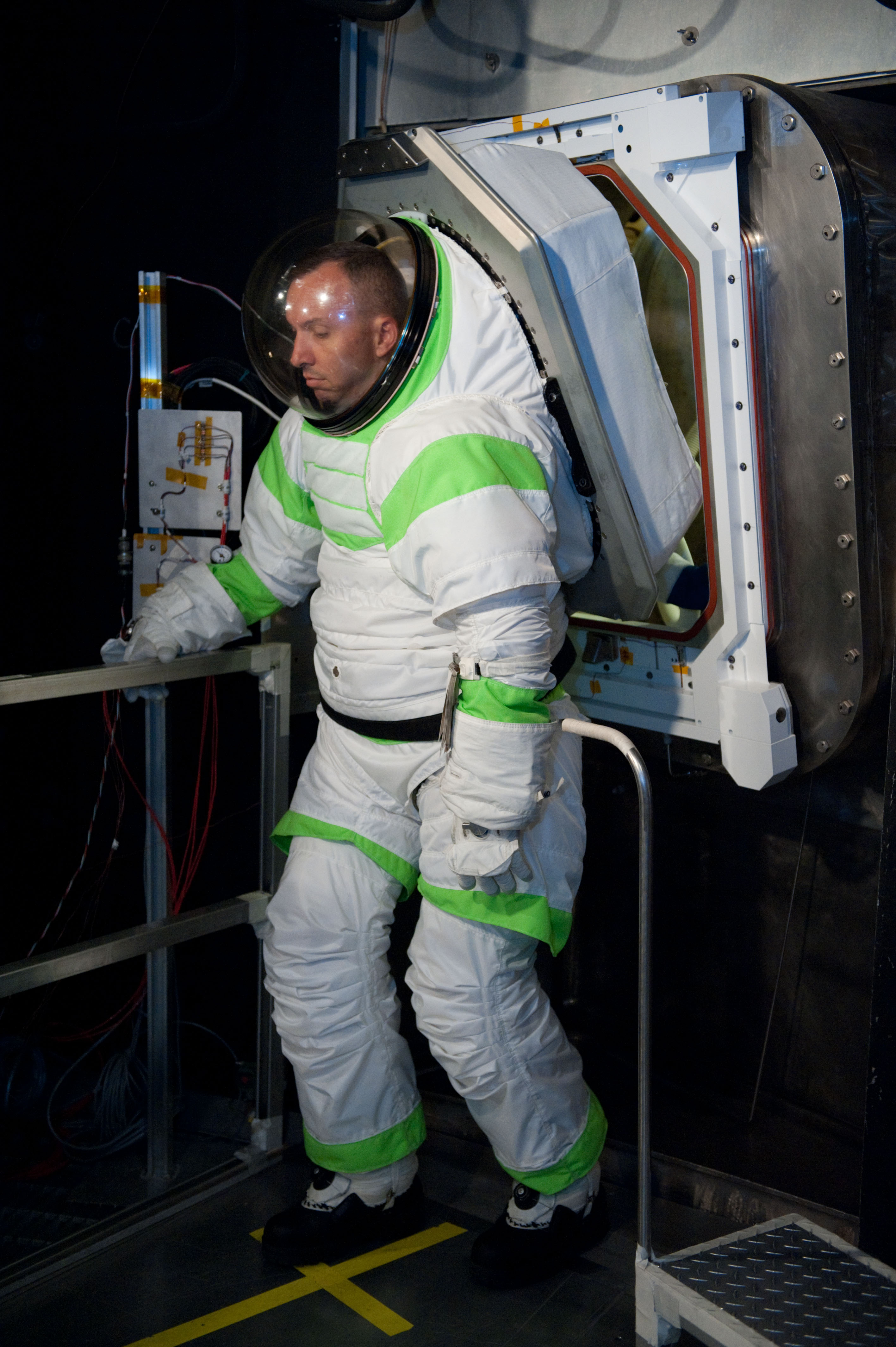 Differential pressure tests of suitport concept with the Z1 spacesuit. Suitport Delta-Pressure Manned Evaluation Test - Suitport Manned Evaluation (DAY 4). STB-AV-197. Suited subject is Astronaut Randy Bresnik. Image ID: jsc2012e103048